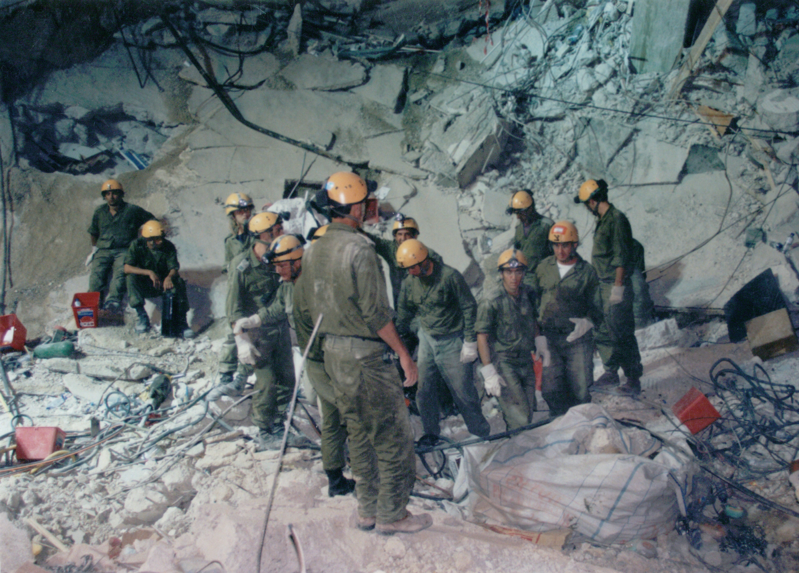 On September 7, 1999, an earthquake struck the city of Athens. IDF sent a delegation to Athens, to participate in joint action with Swiss and French search and rescue teams. Desperately needed heavy engineering tools were brought by the Israeli delegation, and these helped the rescue teams to work quickly and efficiently. The President of Greece thanked Israel for “leaving your problems back at home to come help us with ours.”